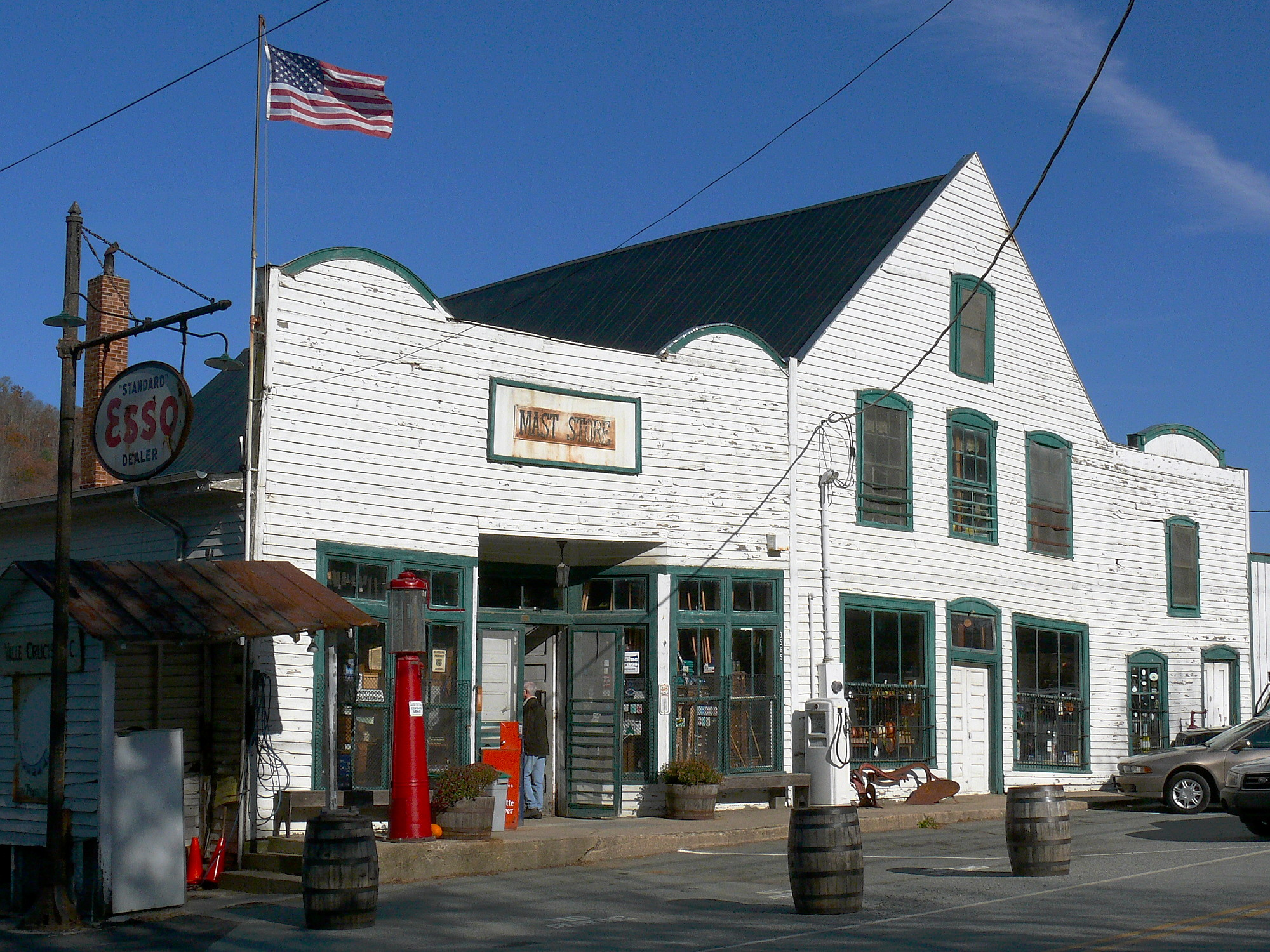 The original Mast General Store location in Valle Crucis.Photo taken with a Panasonic Lumix DMC-FZ50 in Watauga County, NC, USA.